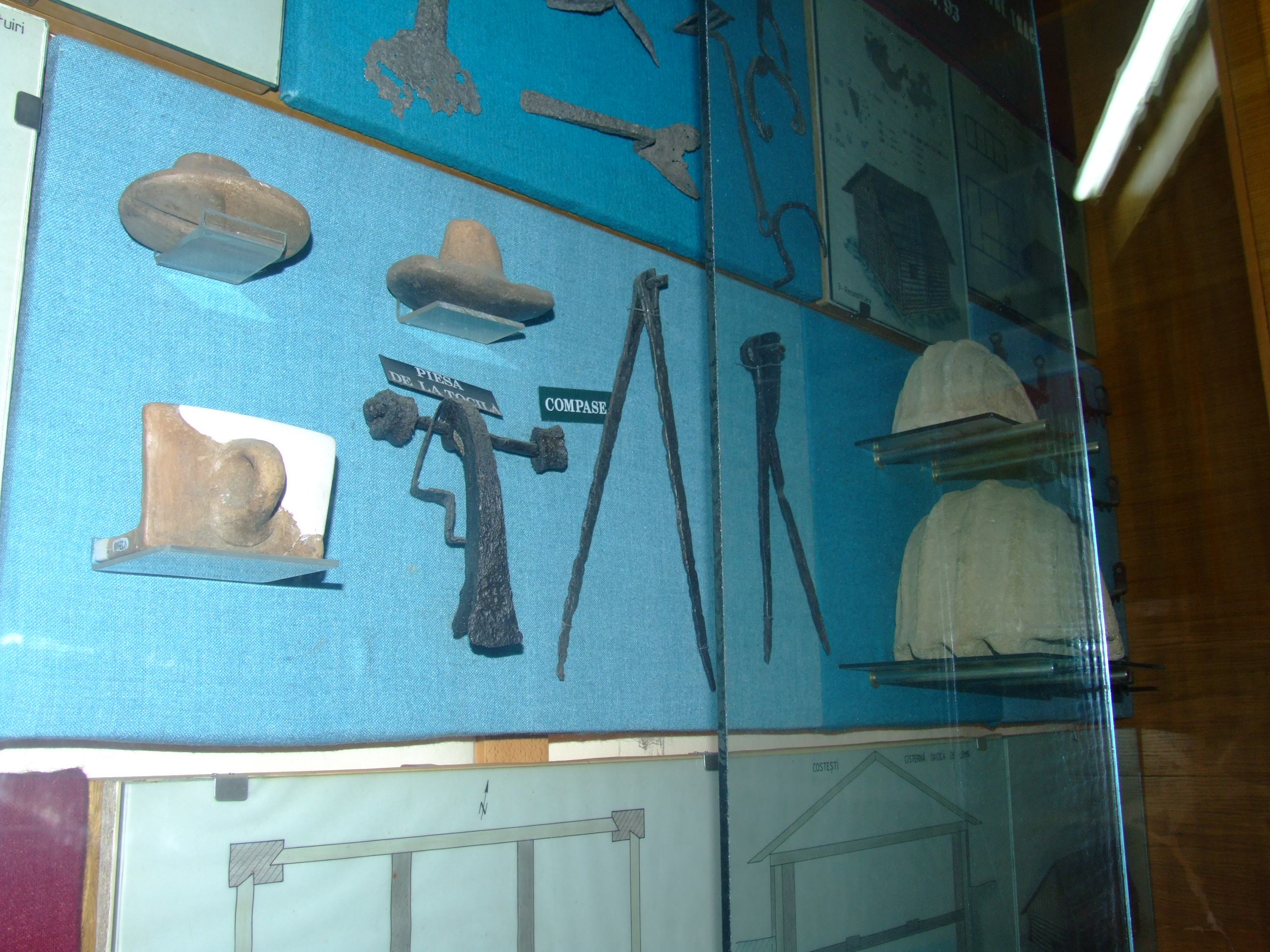 Dacian Engineering Tools